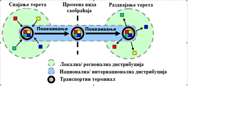 Приказ интермодалног транспортног ланца